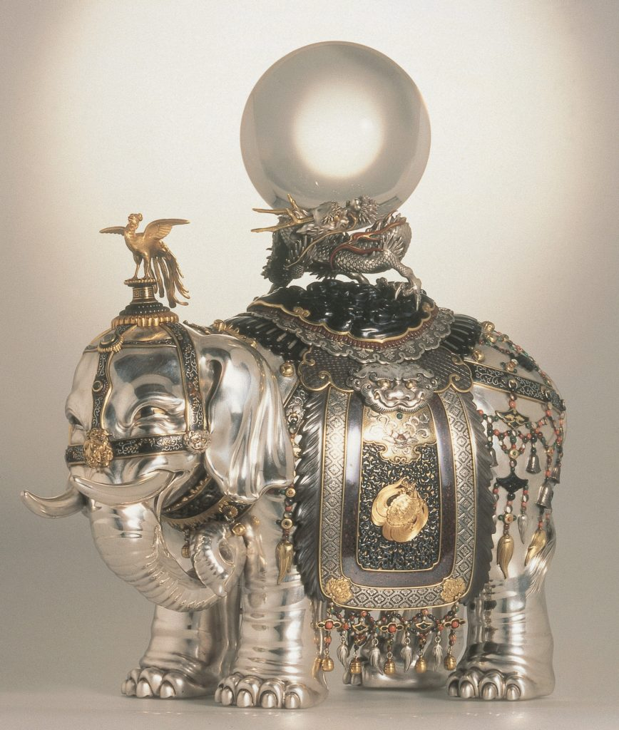 Incense Burner (Koro), Japan, 1890. From the Nasser D. Khalili Collection of Japanese Art of the Meiji Period. Described at